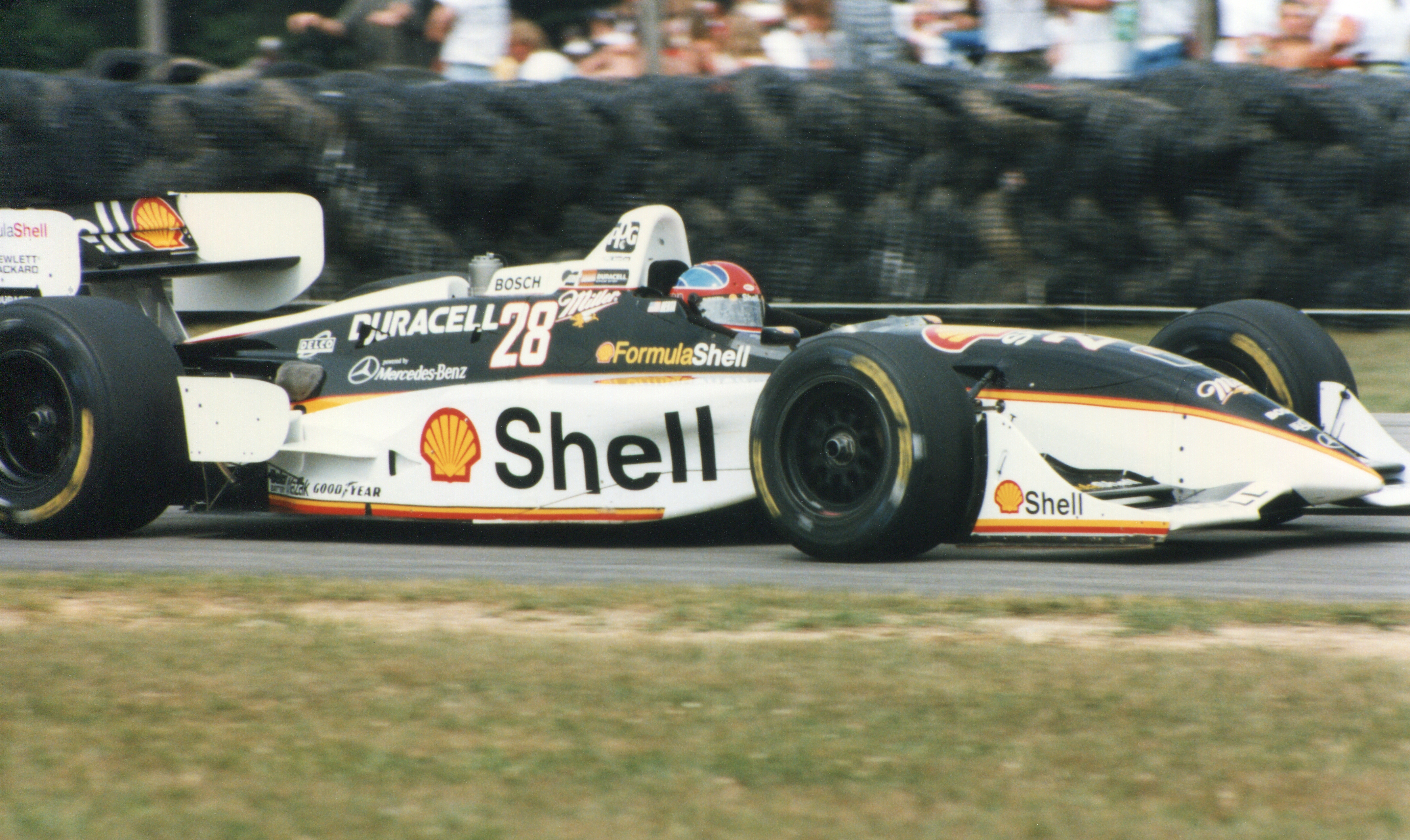 Brian Herta driving for Team Rahal in practice for the Miller 200 at Mid-Ohio Sports Car Course in Lexington, Ohio on August 10, 1996